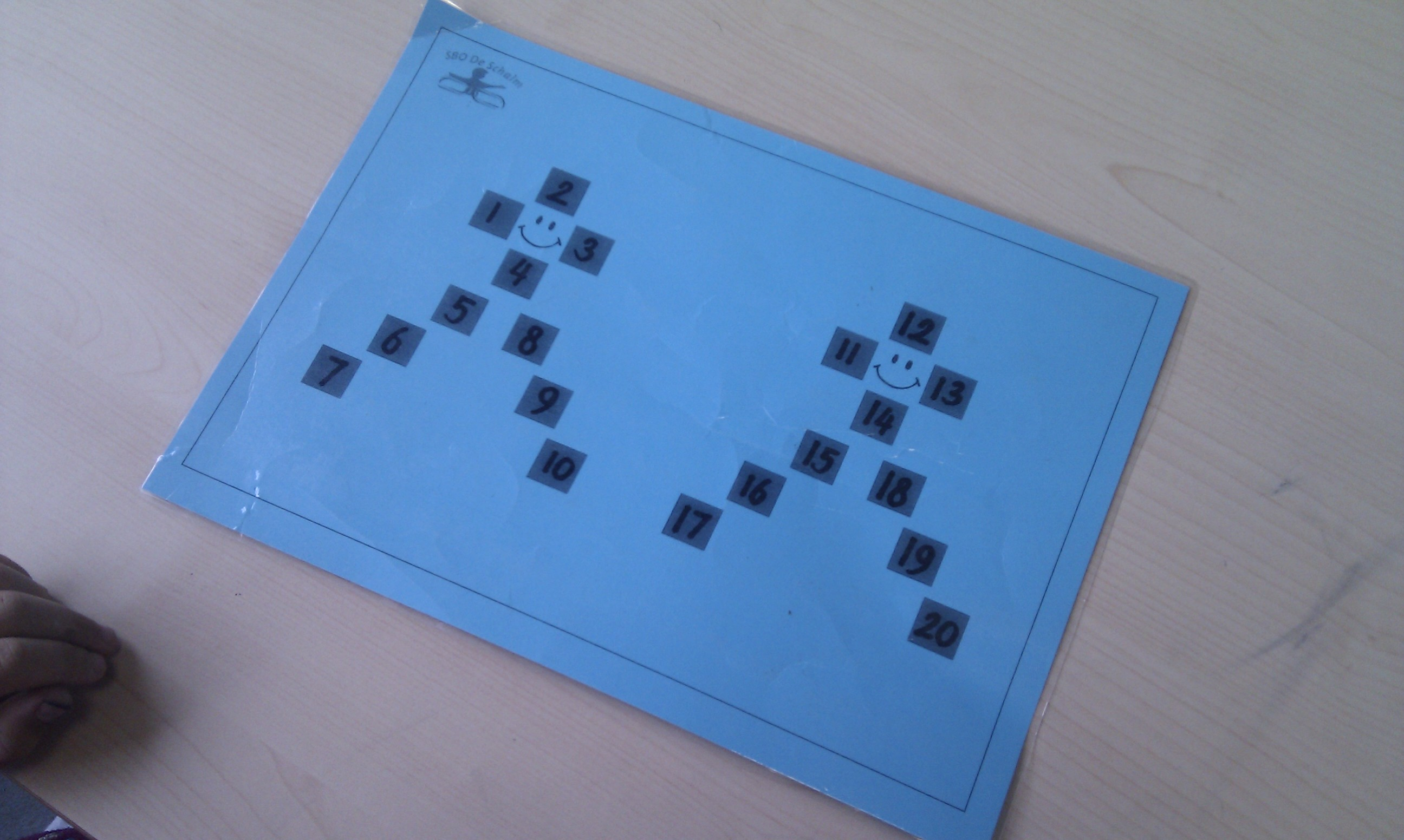 Rare didactic method for teaching maths in elementary school. Im also the creator of the content that is shown in this picture.